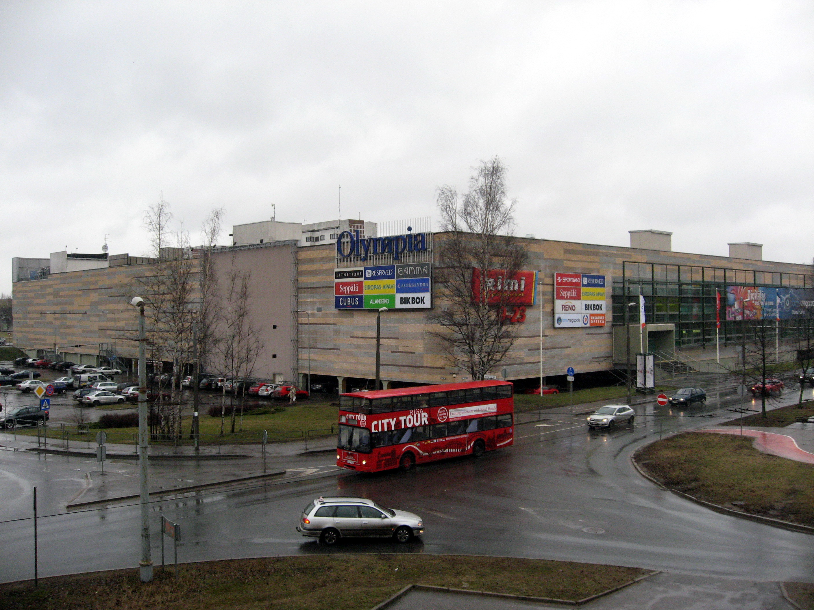 MAN SD 200 in Riga, Latvija.